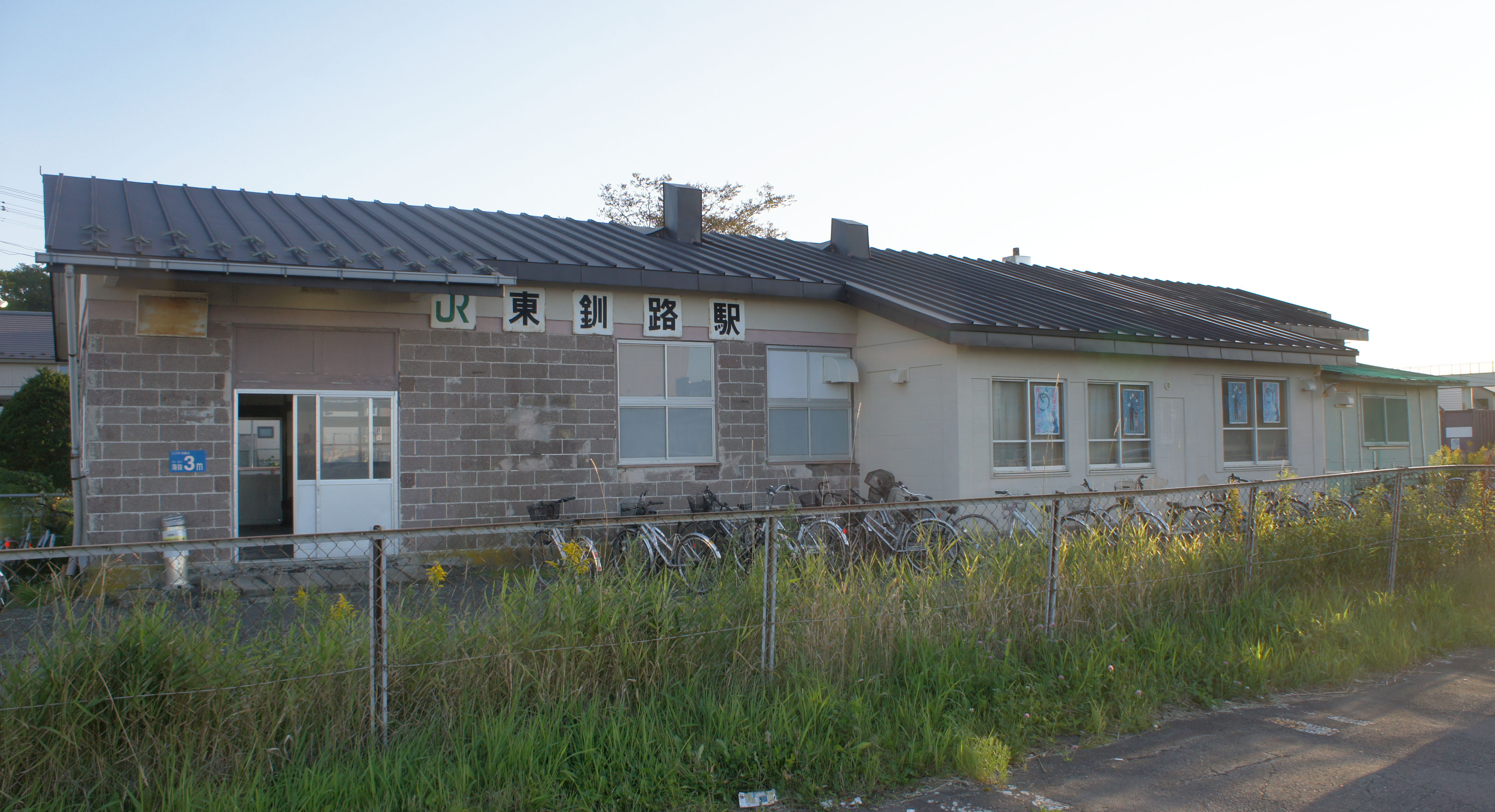 Station building of JR Nemuro-Main-Line/Senmo-Main-Line Higashi-Kushiro Station